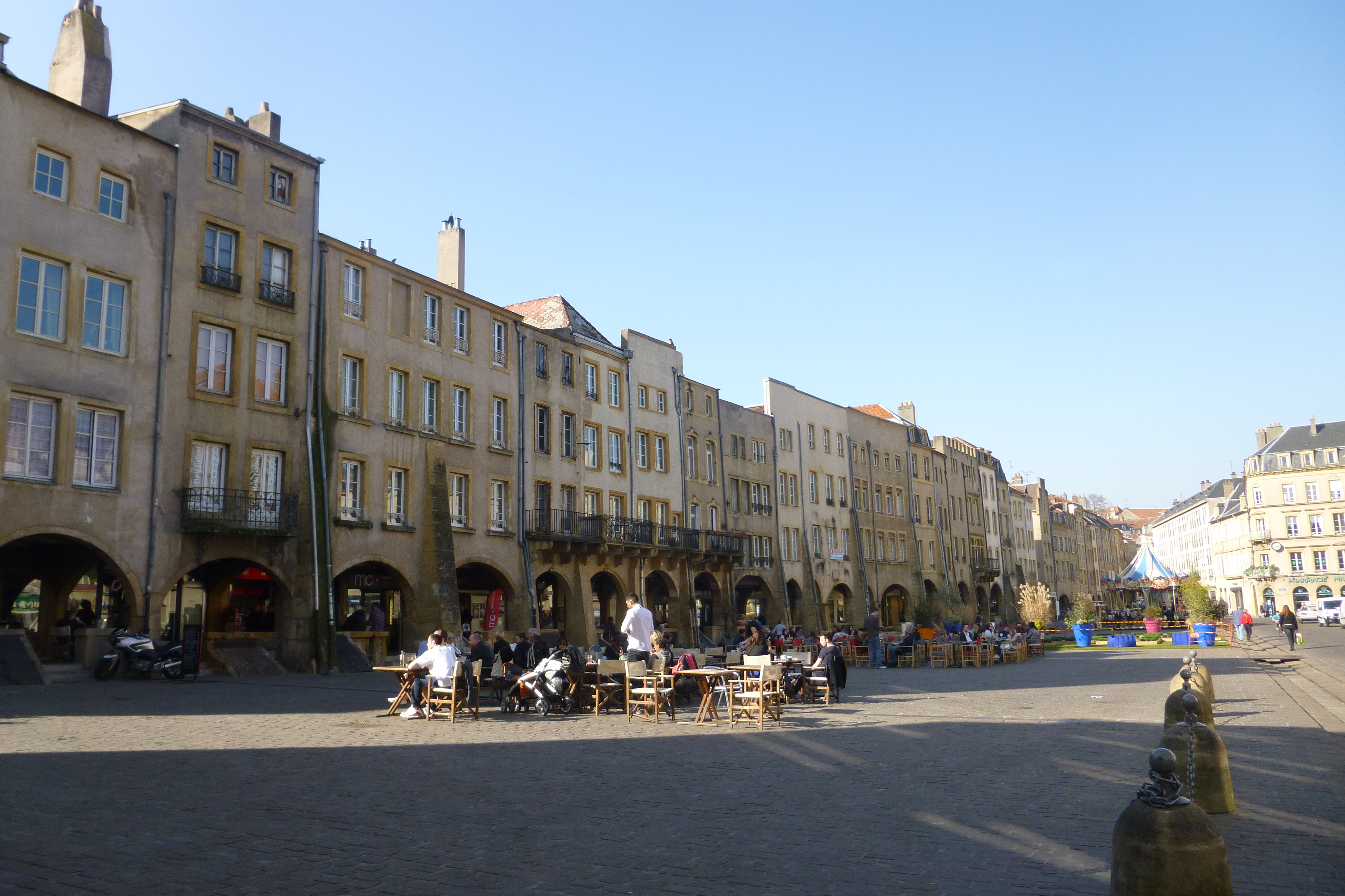 Saint-Louis square in Metz, arcades side